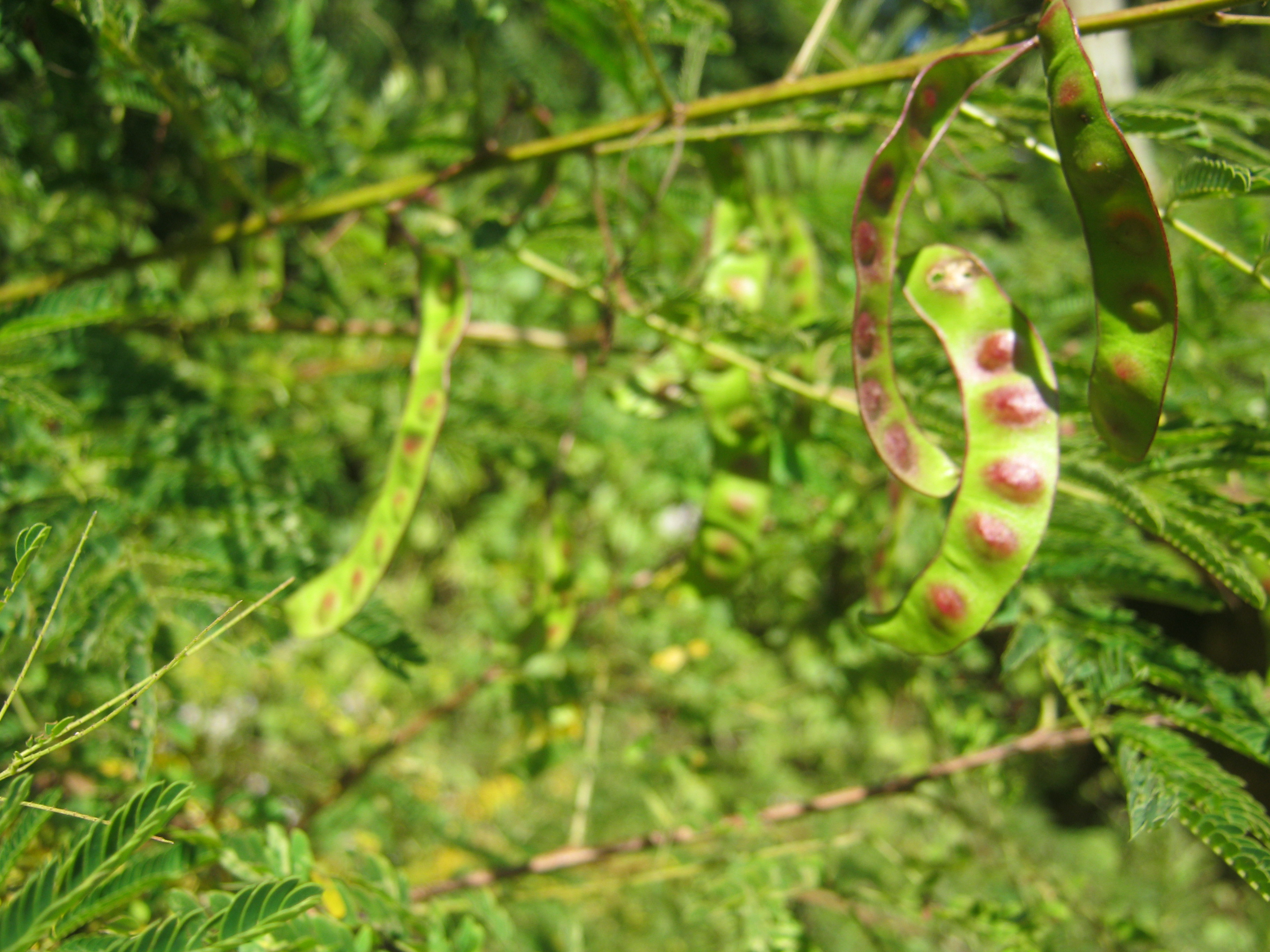 A thorny bush found in Nepal.